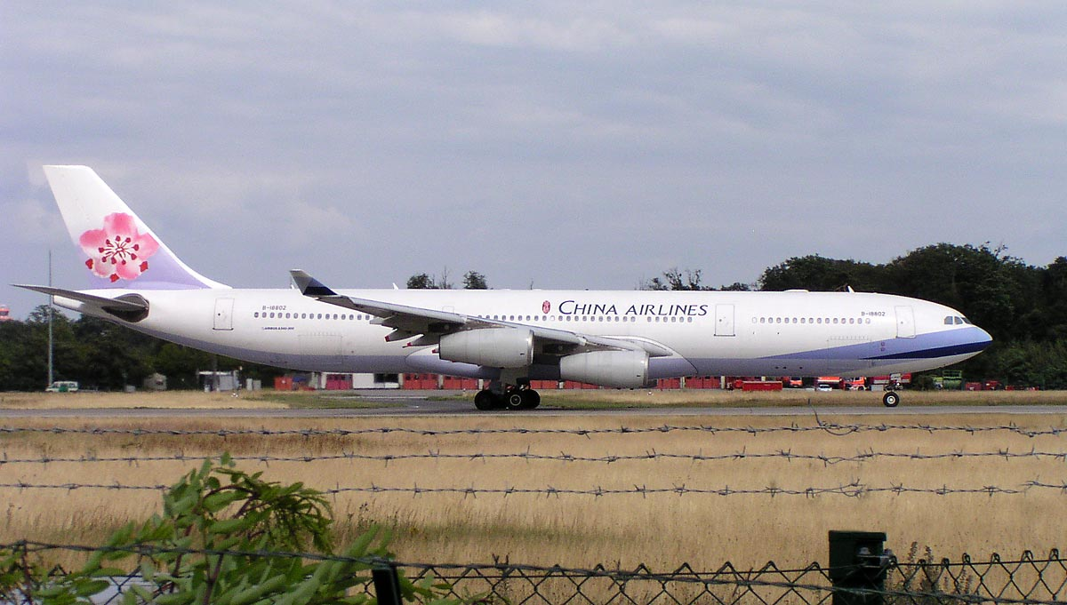 China Airlines Airbus A340-300X (B-18802) in Frankfurt (EDDF)